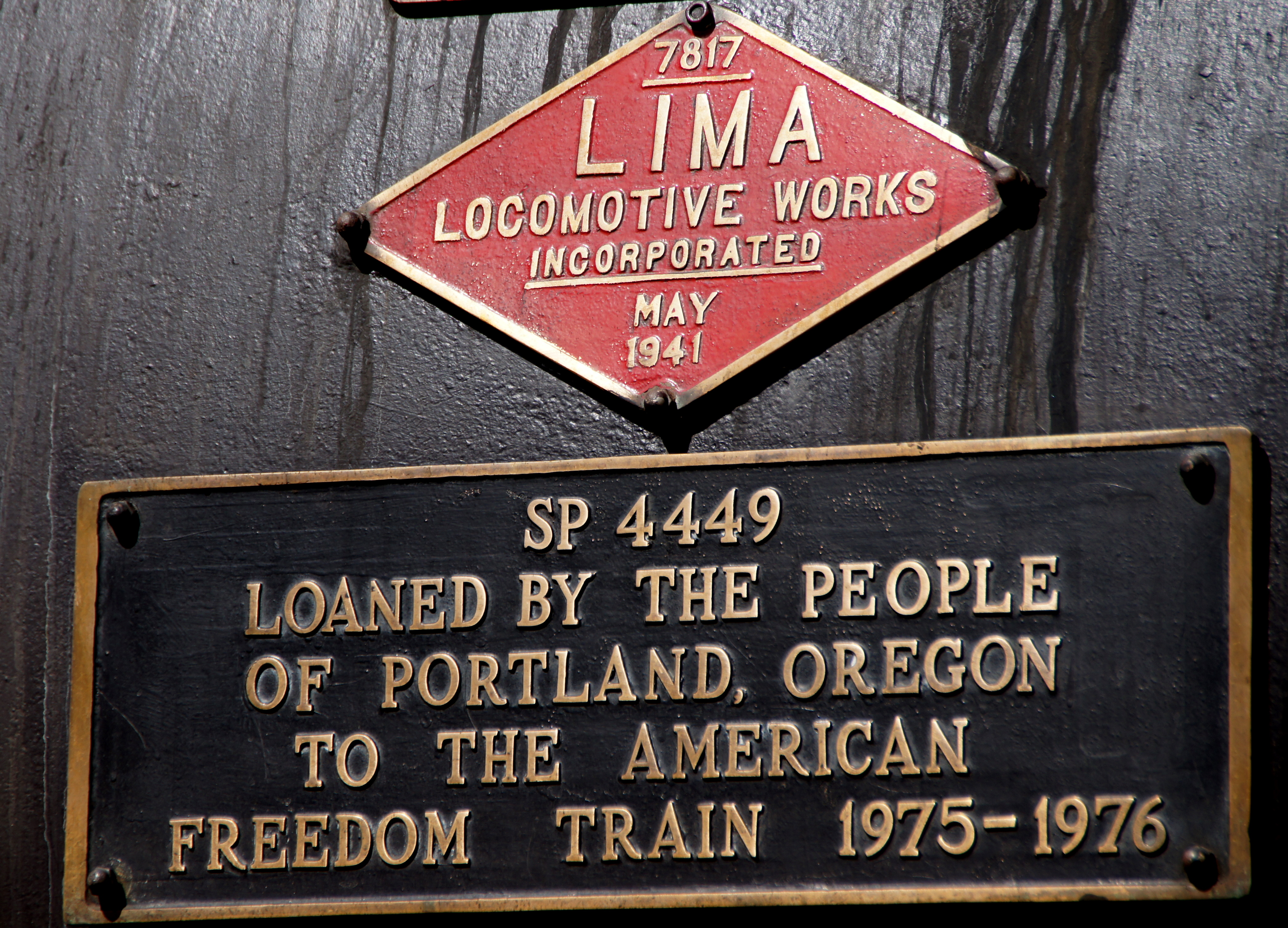 Plaques mounted on the side of Southern Pacific 4449: the Lima Locomotive Works builder's plate and a plate commemorating the 4449's loan by its owner, the city of Portland (Oregon), for use in the American Freedom Train in 1975–76.